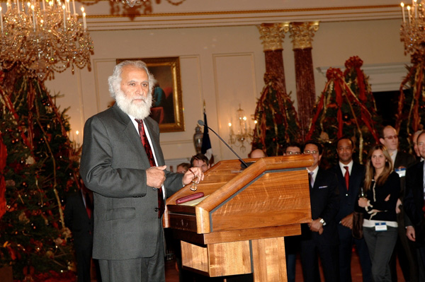 Abdul Jabar Sabit , Afghanistan’s Attorney General. State Dept. photo